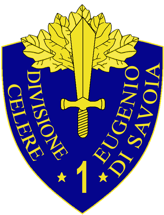 Coat of Arms of the WWII 1a Divisione Celere Eugenio di Savoia of the Italian Regio Esercito